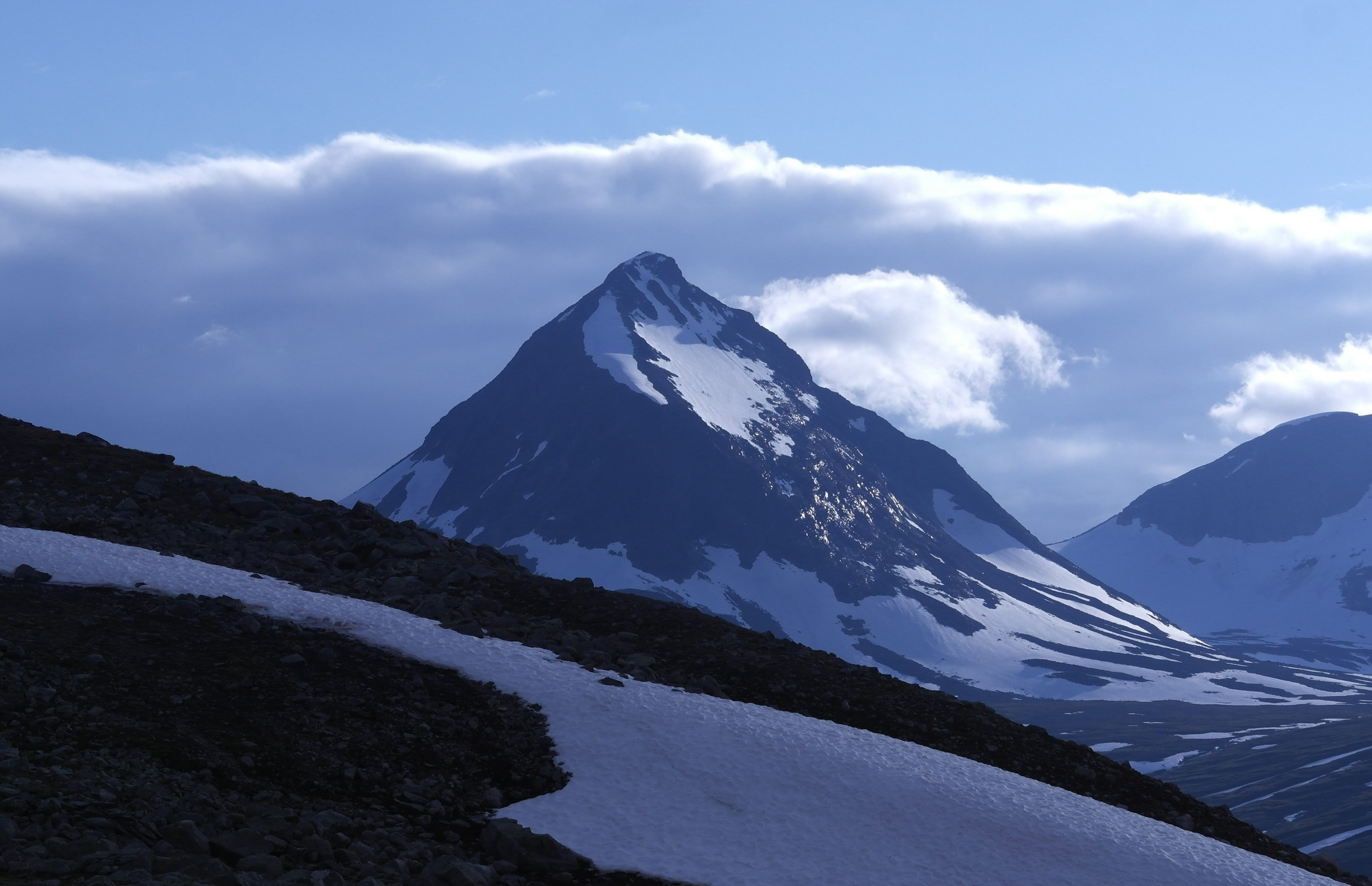 Tverrbytthornet (2102 m), as viewed from the outlet of Urdadalen